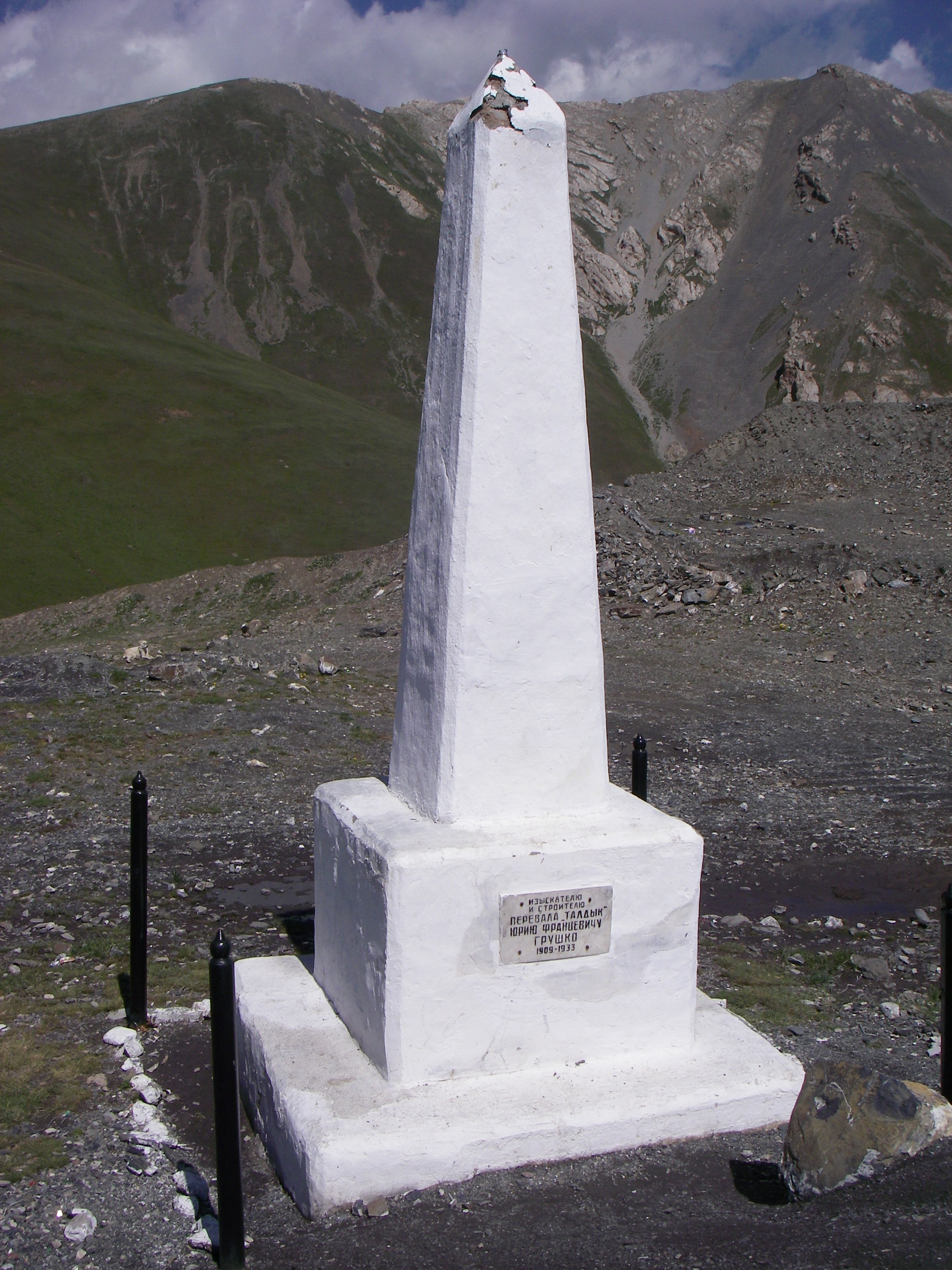 Taldyk pass memorial